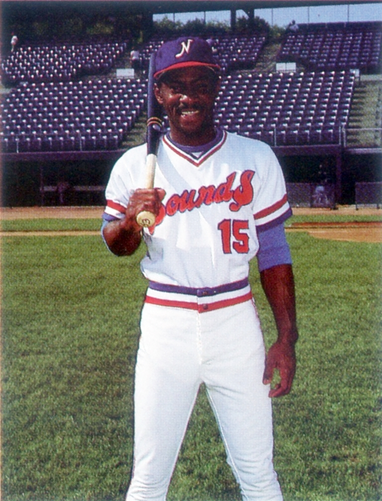 Third baseman Joe Pittman of the 1985 Nashville Sounds Minor League Baseball team of the American Association